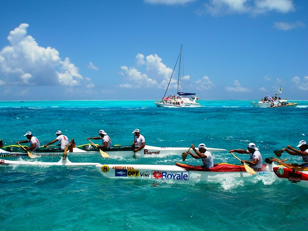 Hawaiki Nui Va'a is an outrigger canoe race that happens once a year in French Polynesia. It takes place over 3 days connecting the islands of Huahine, Raiatea, Taha'a and Bora Bora in a hommage to ancient times. It is a huge party in these islands with Bora Bora being the final leg and the big finale at Matira Beach! This year 83 canoes seating teams of 6 paddlers competed to win this prestigious race with a couple of teams from Hawaii and New Zealand as well as New Caledonia. Tahiti's Shell Va'a team won for the 3rd year in a row. They are proving to be pretty unbeatable at the moment as they also won Molokai in Hawaii for the second year in row earlier this month. At Hotel Bora Bora, we are the last point before Matira Bay and the arrival at the public beach so we had staff drumming at the point to encourage the paddlers to the end and a big tahititan oven for all our guests on the beach. You will notice from these pictures that the arrival side of the point was a beautiful blue sky whereas the other side was very grey and cloudy making for a pretty dramatic setting!